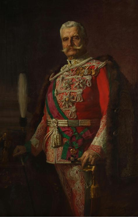 Géza Fejérváry, Captain of the Royal Hungarian Noble Guard, later Prime Minister of Hungary between 1905 and 1906 (oil painting)